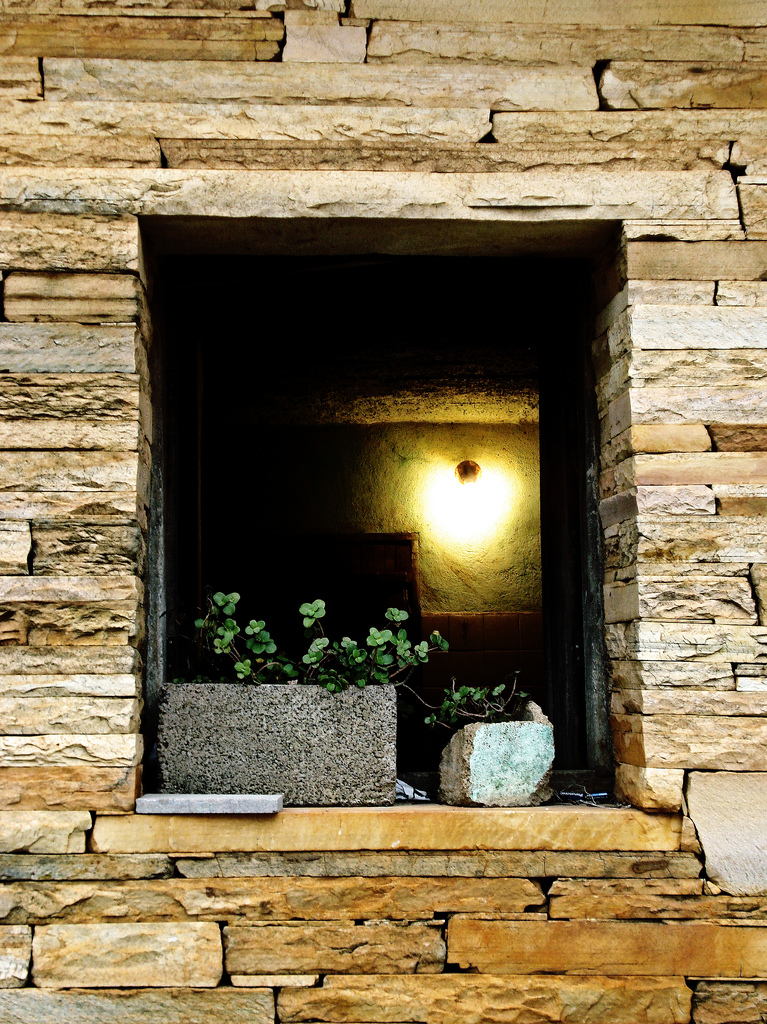 Picture from a window of a house made of stone in Sao Tome das Letras (Minas Gerais - Brazil during a trip in vacations.